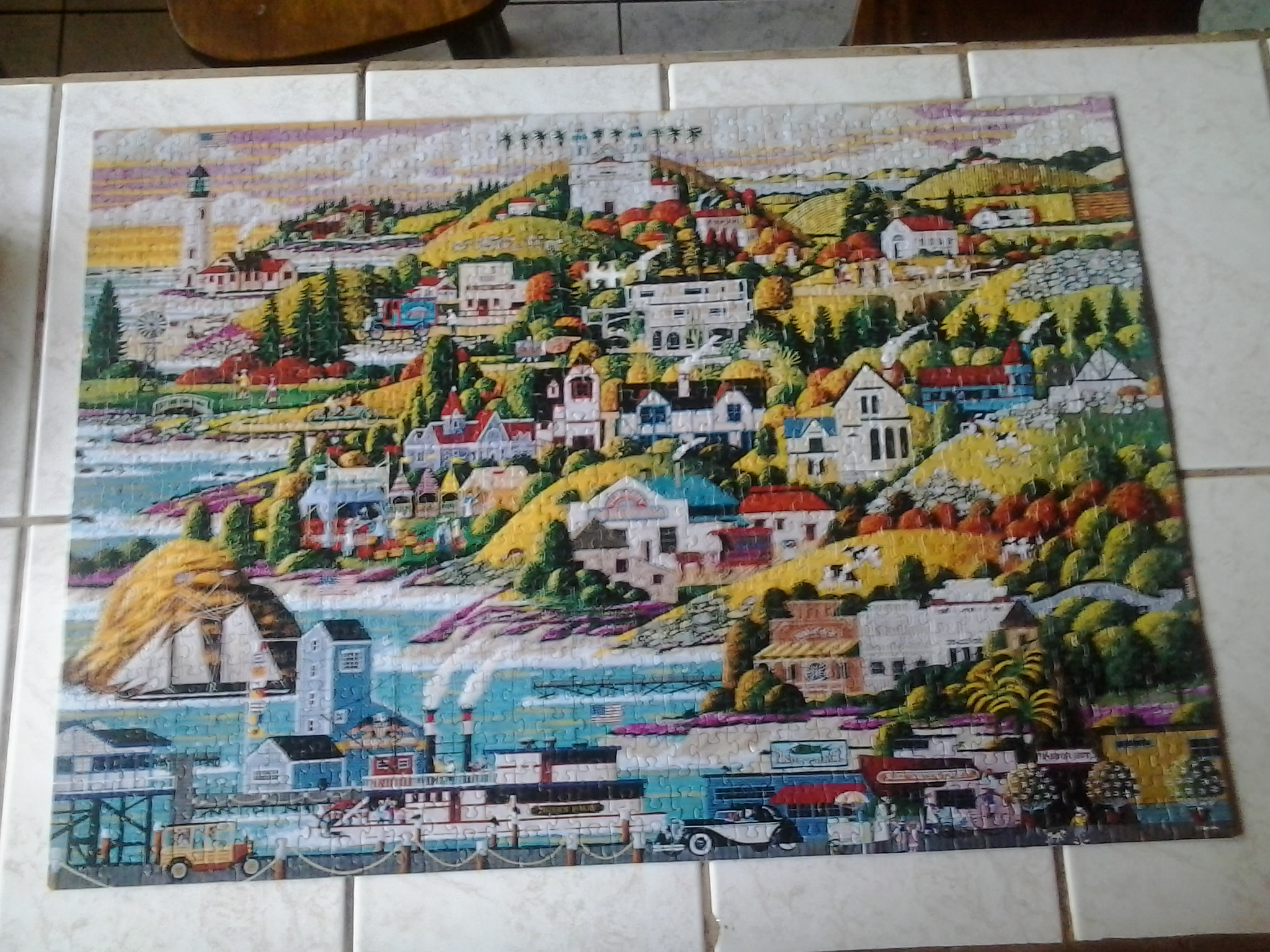 Use puzzle-Mexico Border